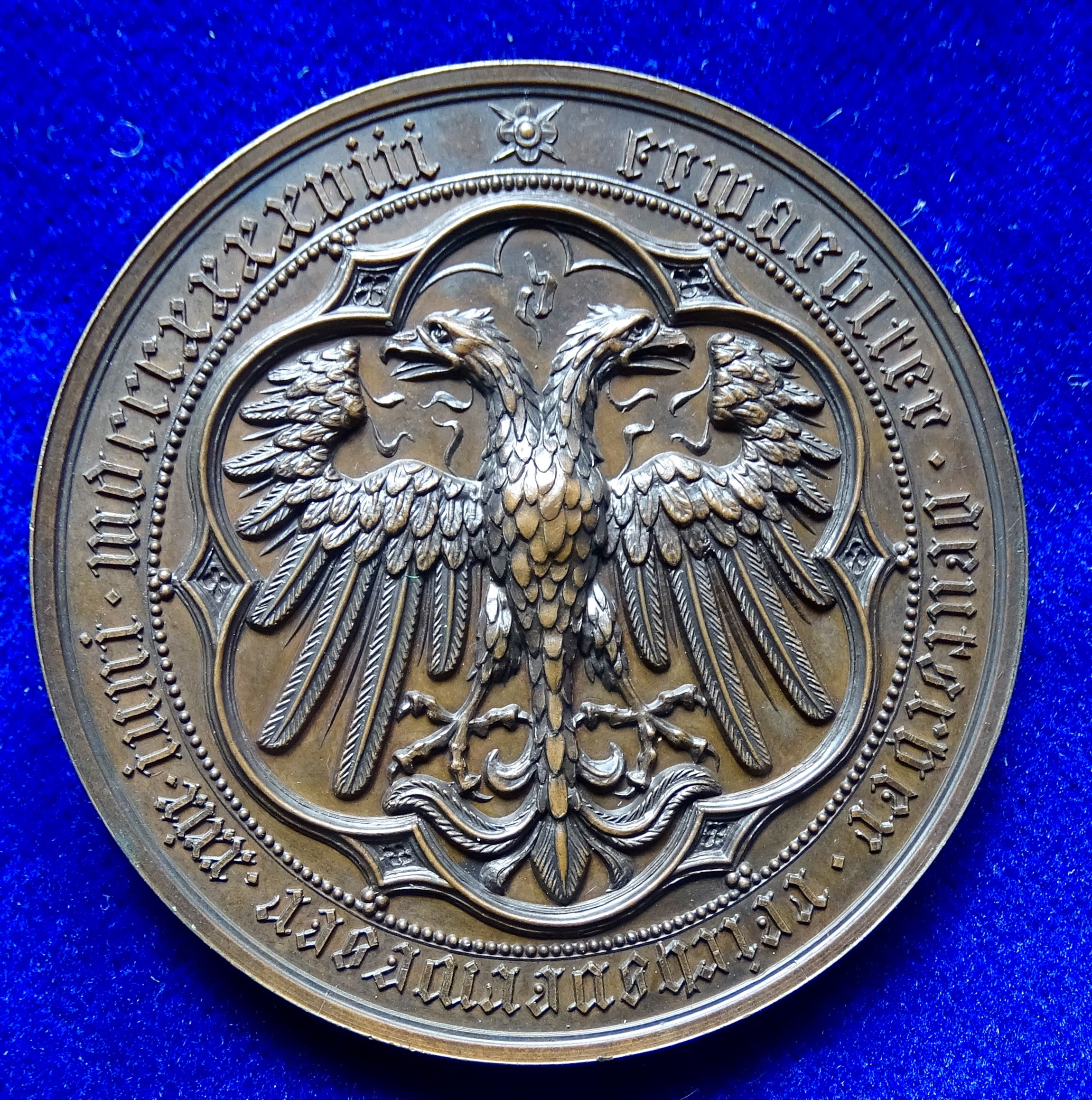 Bronze medallion d.= 43 mm. Commemoration of the election of the German Imperial Regent by the Frankfurt Parliament after the March Revolution of 1848. Archduke John of Austria (German: Erzherzog Johann Baptist Joseph Fabian Sebastian von Österreich) 1782 Florence, Grand Duchy of Tuscany – 1859 Graz, Styria, Austrian Empire, a member of the House of Habsburg, German Imperial Regent (Reichsverweser) during the Revolution of 1848-1849. Portrait l., around: "johann · erzherzog von · österreich"/ Imperial Eagle surrounded by: "* erwaehlter · deutscher · reichsverweser · xxix · iuni · mdcccxxxxviii *" J & F 1144. Medallist: K. (Karl) Radnitzky, Bildhauer und Medailleur in Wien, 1818 Wien - 1901 Vienna, Austria. Condition : Beautifully toned EXTREMELY FINE+.